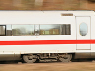 The BordRestaurant of an ICE 1 high-speed train.